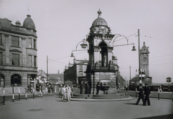 Postcard of Coatbridge fountain area; published 1937 by J. Valentine & Co, actual photographer unknown since Valentine's did not attirbute images. Hence it is unknown when the creator died.